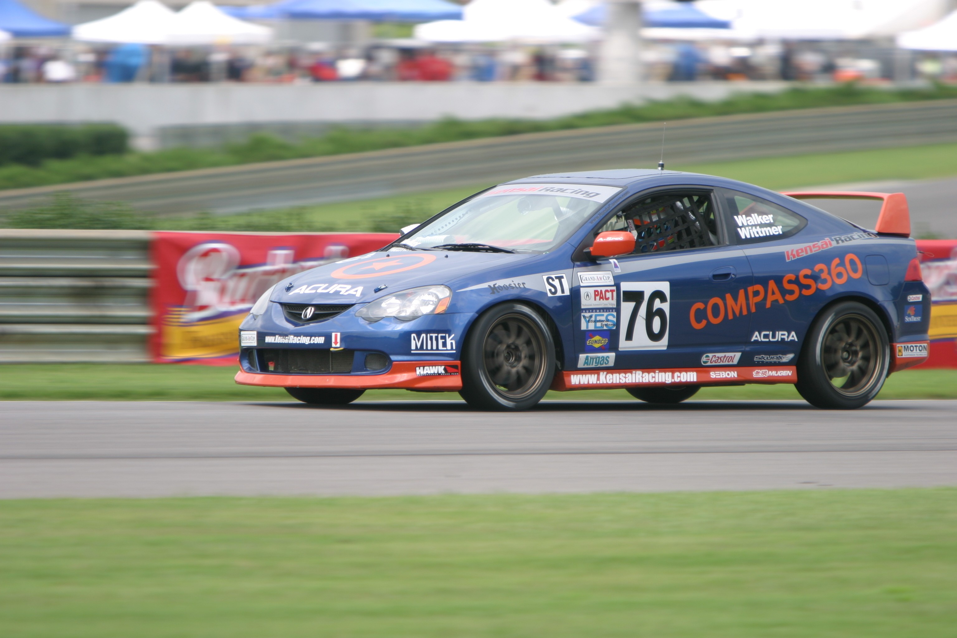 Acura RSX in the Grand-Am Cup race at the 2006 Porsche 250 at Barber Motorsports Park